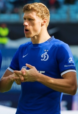 Pavel Pogrebnyak